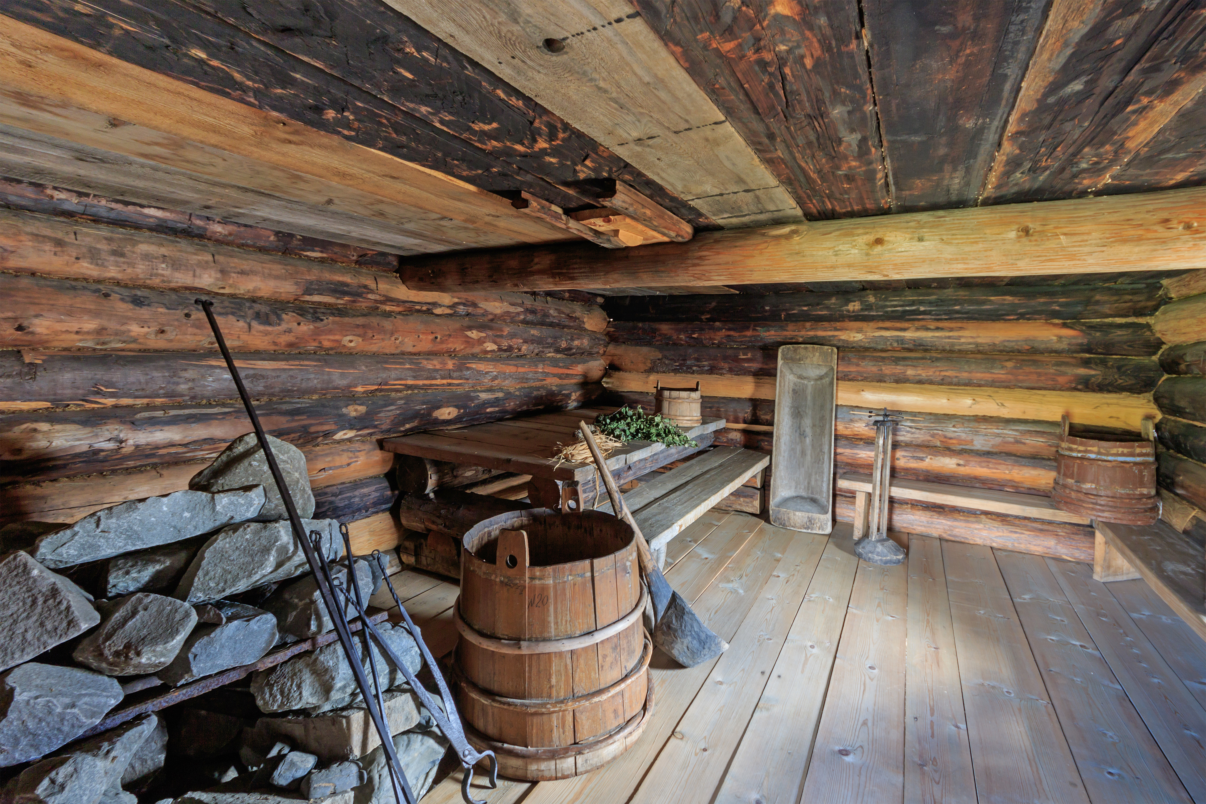 Bathhouse from Mizhostrov on Kizhi Island, Republic of Karelia (Russia).